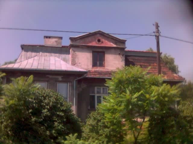 Amon Göth's house in KZ Płaszów (Kraków).